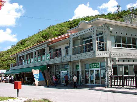 Michinoeki Ogimi